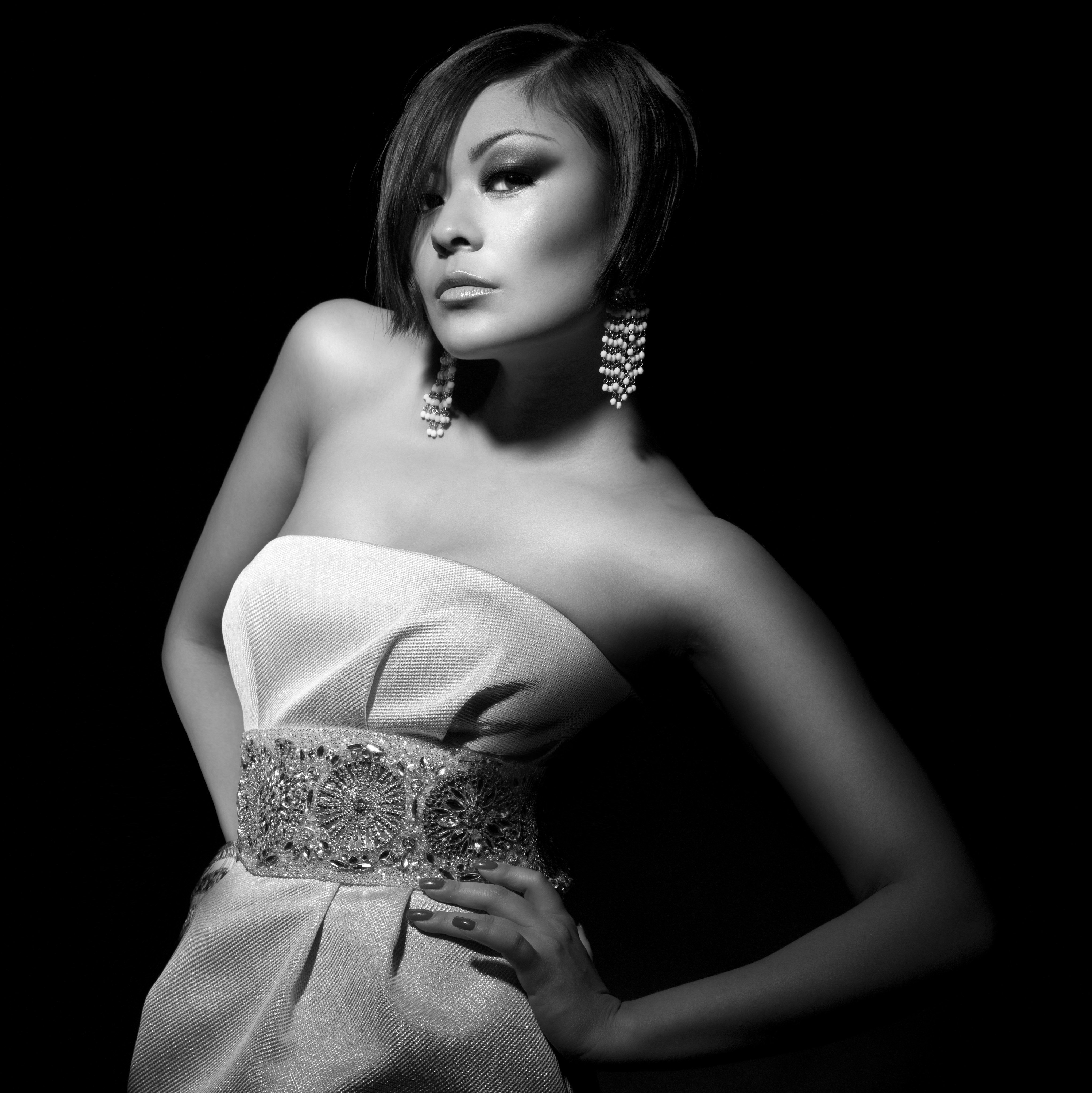 The elegant beauty of Dilnaz Akhmadiyeva...